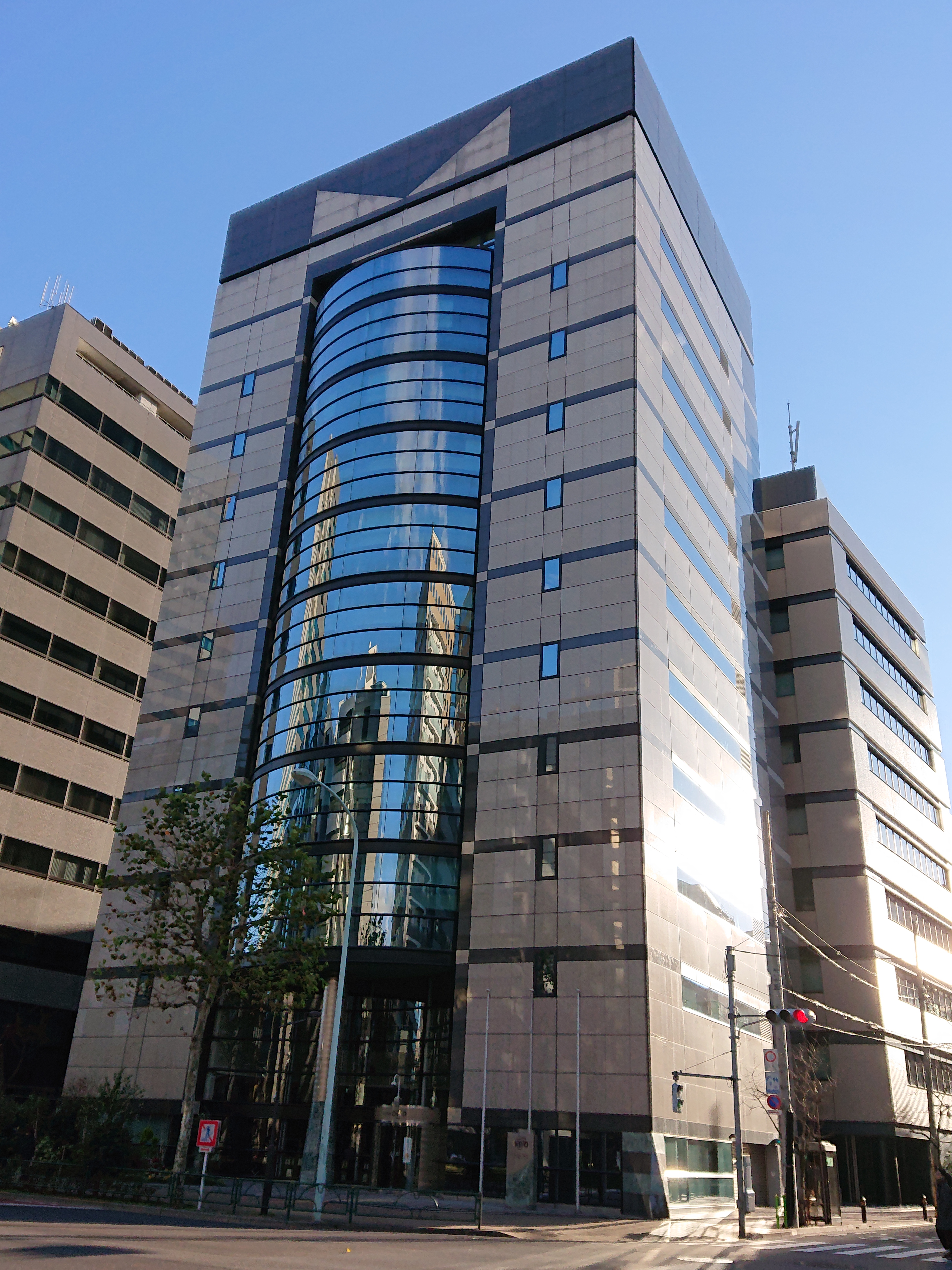 Nisshin OilliO Group (日清オイリオグループ), located at 1-23-1 Shinkawa, Chuo, Tokyo, Japan